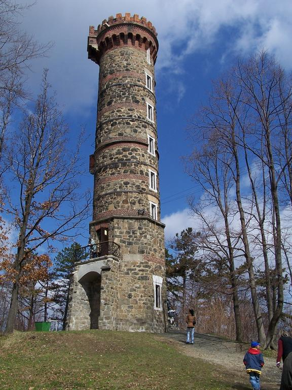 View tower at Cvilín, Krnov, Czech Republic.